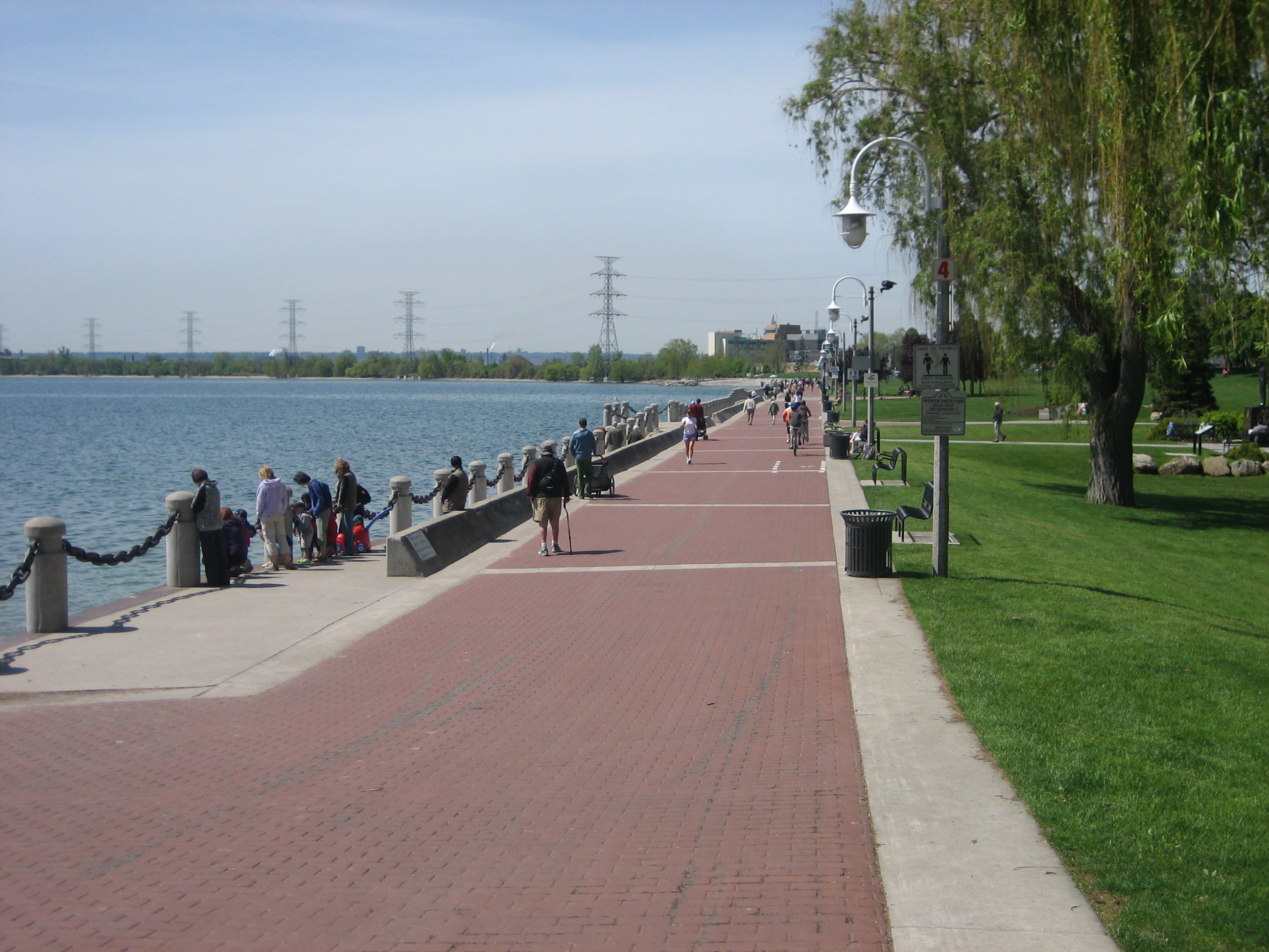 The photo is of Spencer Smith Park in Burlington, Ontario, Canada. The photo was taken by Andrew Lynes, on May 21, 2007. It was taken for use in the Burlington, Ontario and Spencer Smith Park articles.